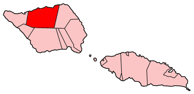 Map of Samoa showing Gagaifomauga district. Made by User:Golbez.